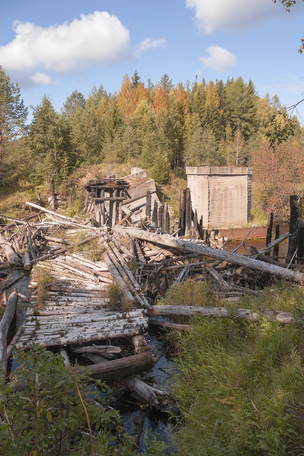 Destroyed railway bridge on Mekhrenga River, Arkhangelsk region of the Russian Federation